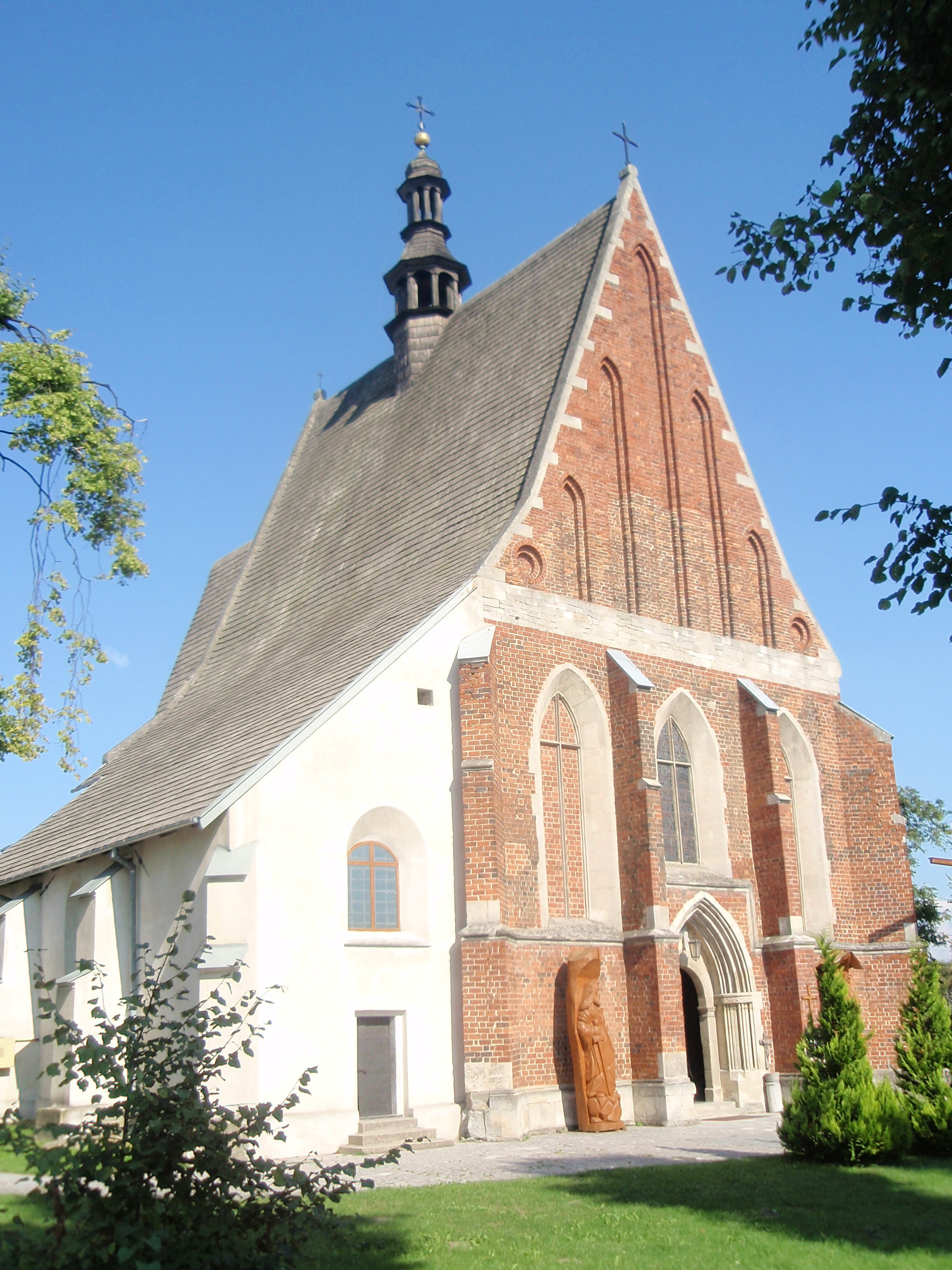 Church of St. Władysław in Szydłów (Poland)